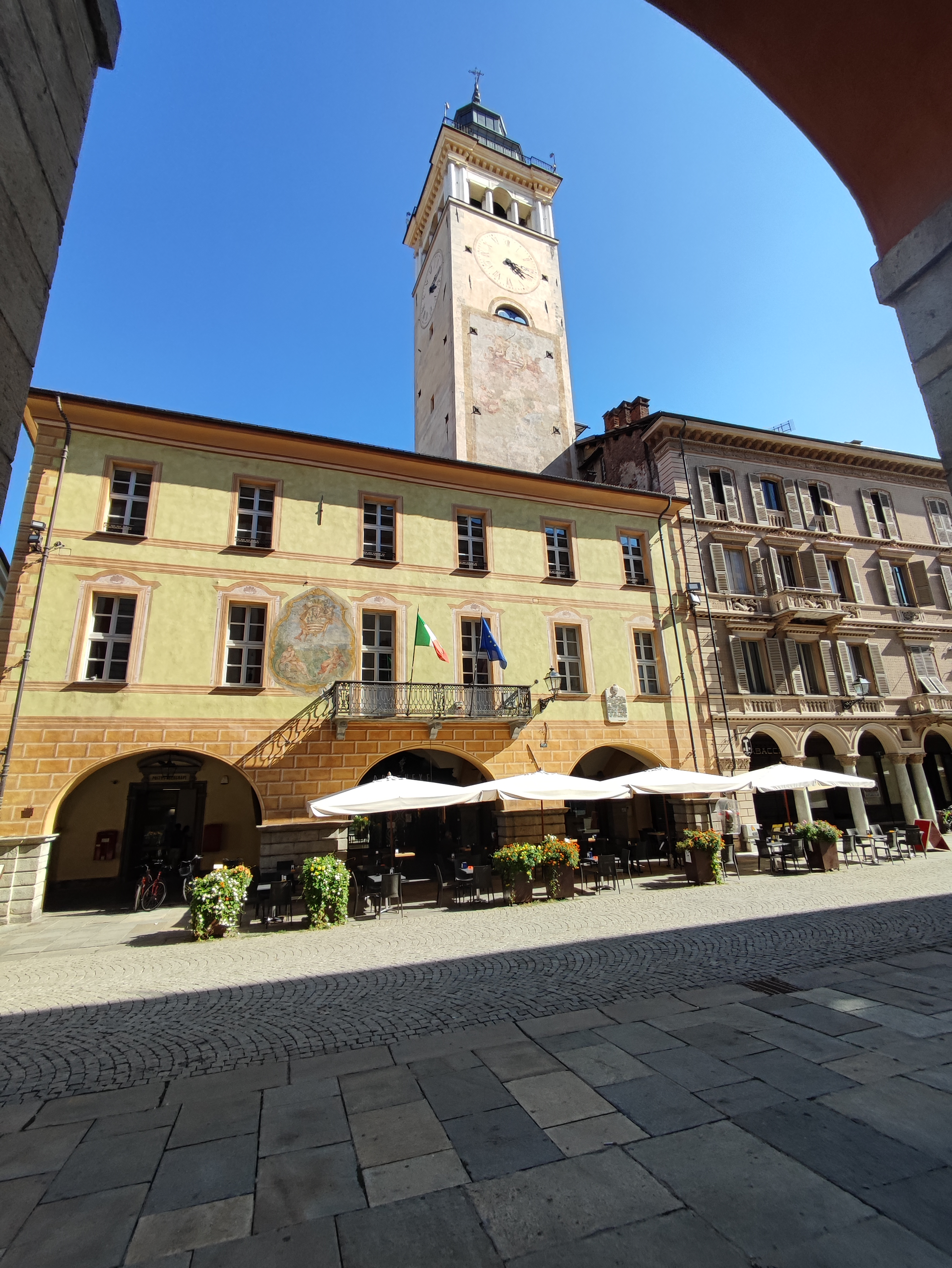 Cuneo, La Torre Civica